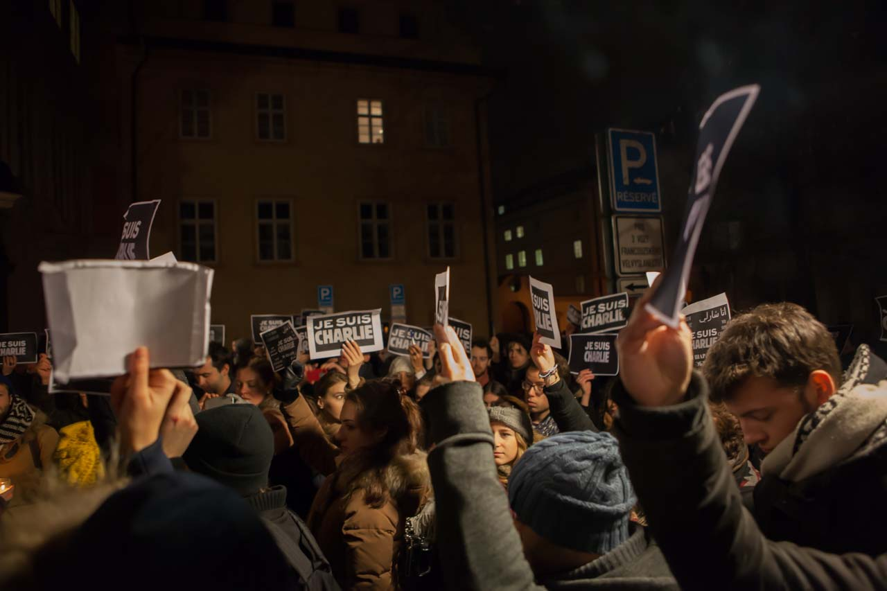 Photo taken during the first "Je suis Charlie" gathering in Prague